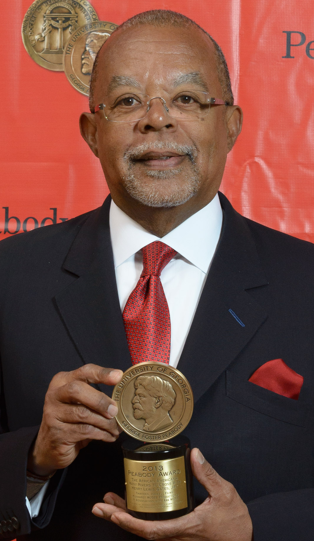 Henry Louis Gates at the 73rd Annual Peabody Awards for "African Americans"